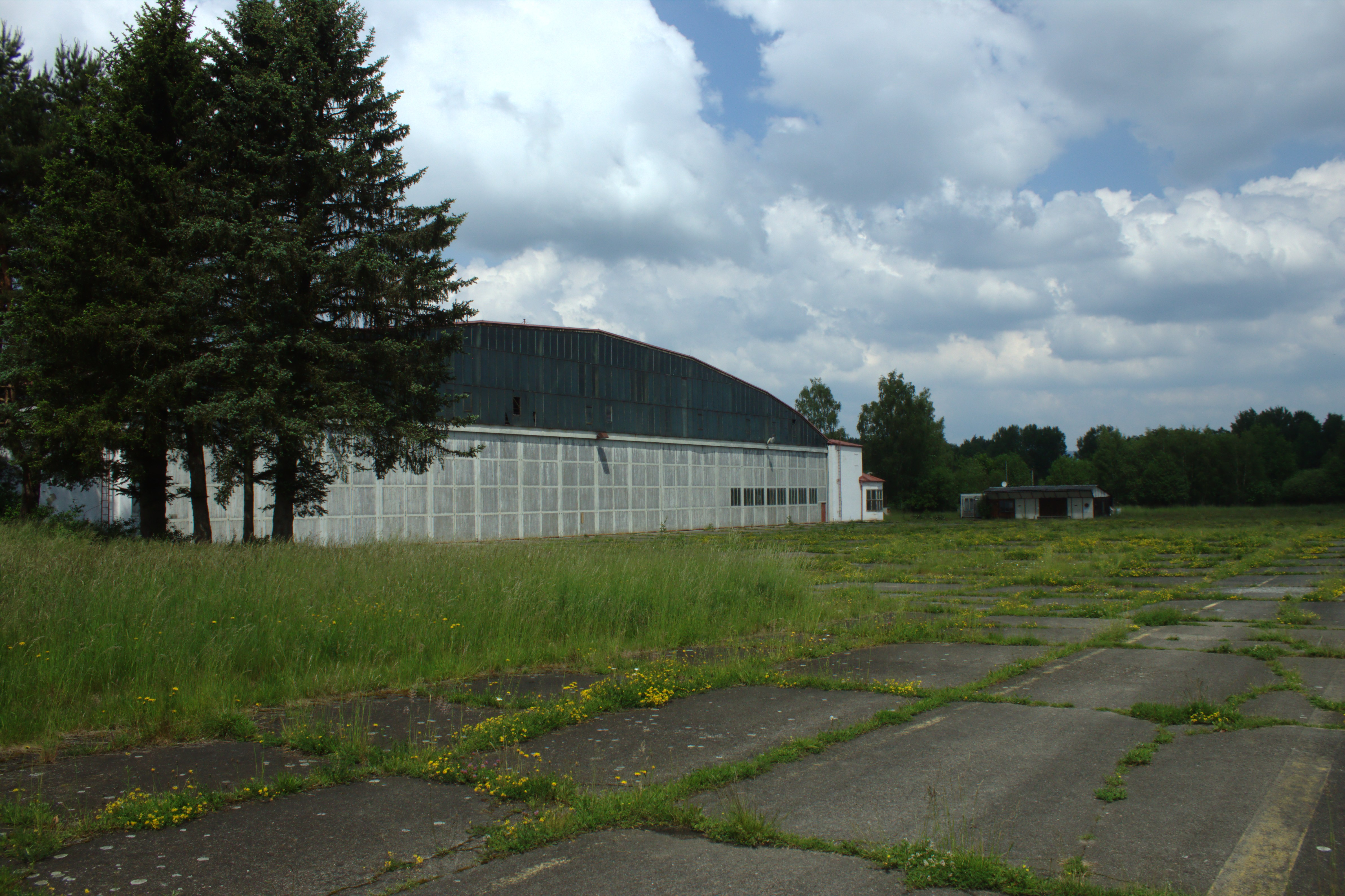 Former Mariánské Lázně Airport hangar